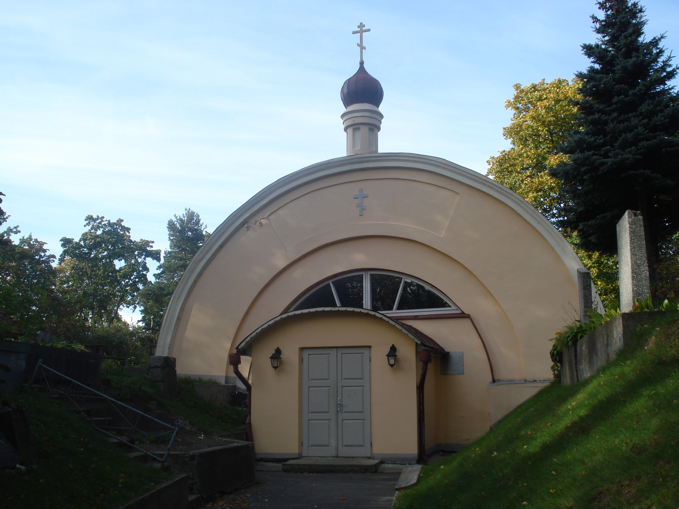 Cave Church of Saint Tikhon of Zadonsk in the Euphrosyne Cemetery in Vilnius (Liepkalnių g.)